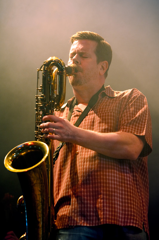 Ken Vandermark, moers festival 2010